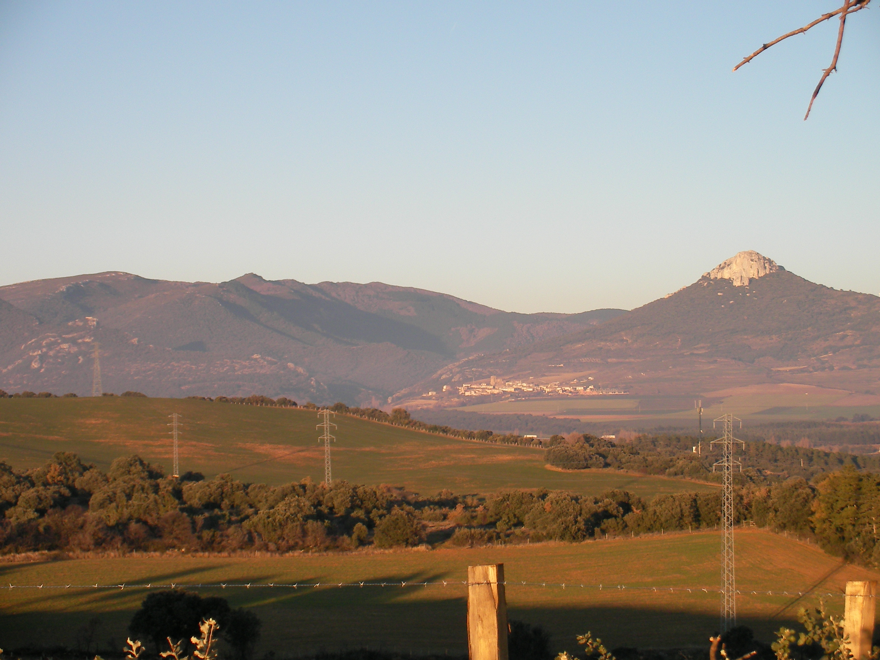 View of Unzué from Barásoain, Navarra.